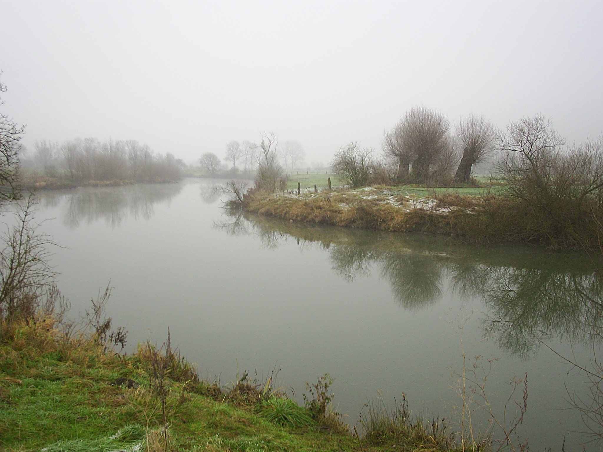 Willow trees in Winter by the Lippe River in Westfalia, Germany, between the towns of Luenen and Bergkamen